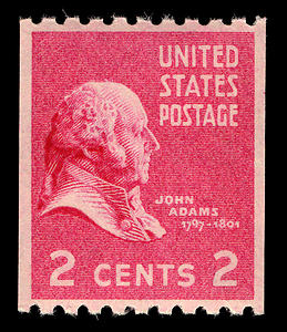 u.s. postage stamp of 1938 depicting John Adams